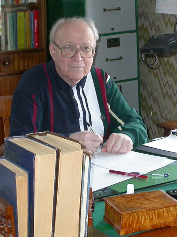 Eugene B. Dynkin at his home in Ithaca, NY, circa 2003.